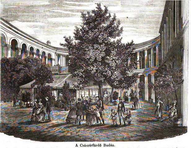 Public baths, Buda